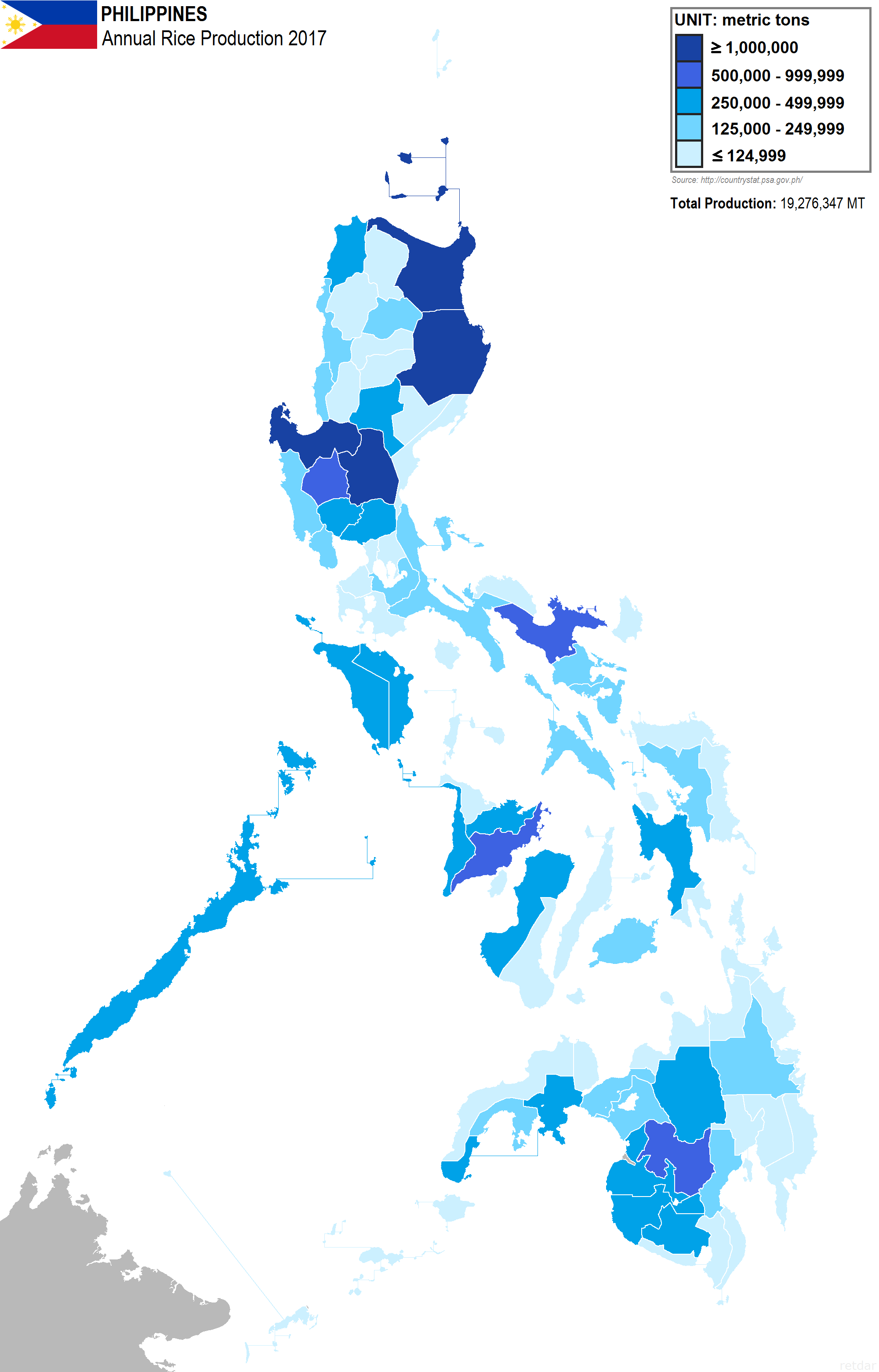 2015 Annual Rice Production of Philippine provinces. Filipino: Kabuuang produksyon ng bigas ng bawat probinsya ng Pilipinas sa taong 2015. Hiligaynon: Kabilugan nga produksyon sang bugas sang tagsa ka probinsya sang Pilipinas sa tuig 2015. Kinaray-a: Kabilugan nga produksyan kang bugas kang kada probinsya kang Pilipinas sa tuig 2015.